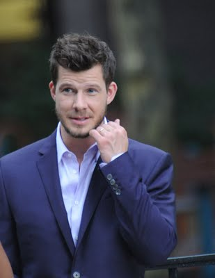 Still from the Hit ABC series Ugly Betty.